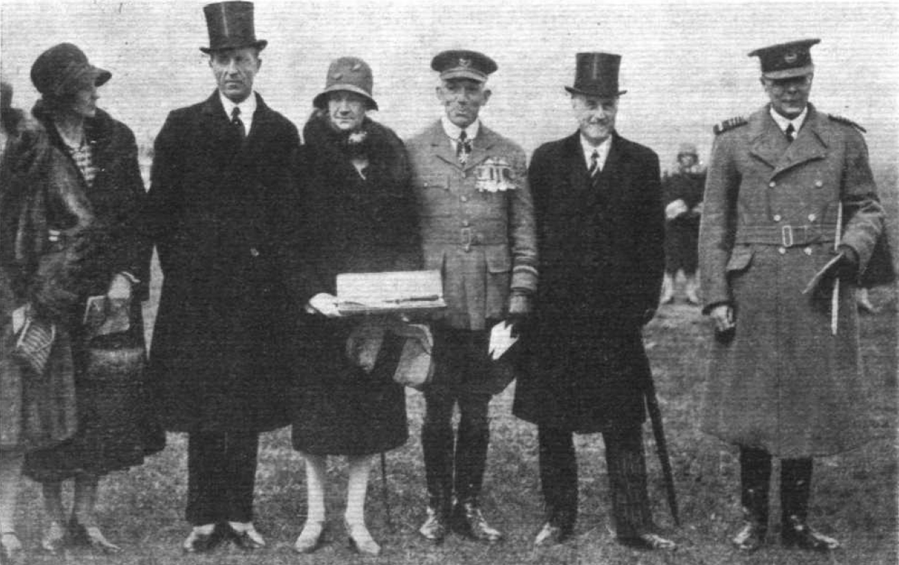 VIPs present at the founding ceremony for the new College Hall building at the RAF Cadet College, Cranwell. From left to right are: Unknown female (possibly Lady Trenchard), Lord Londonderry, Maud, Lady Hoare, Air Vice-Marshal F C Halahan - RAF College Commandant, Sir Samuel Hoare - Secretary of State for Air and Marshal of the RAF Sir Hugh Trenchard - Chief of the Air Staff.